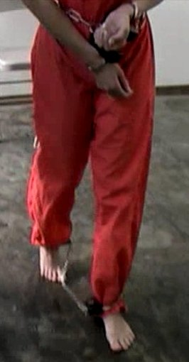 Prison inmate in high security restraints